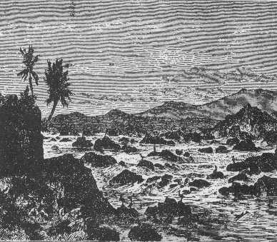 First Cataract of the Nile, near Assouan (Aswan) (picture section wo/ right margin)